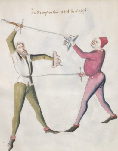 Extract of Cgm 1507 by Paulus Kal